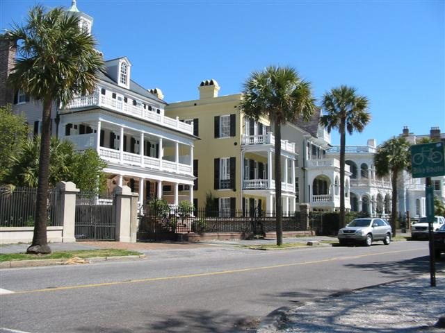 Historic homes near to the Battery Park in Charleston, South Carolina.Historic homes along the battery